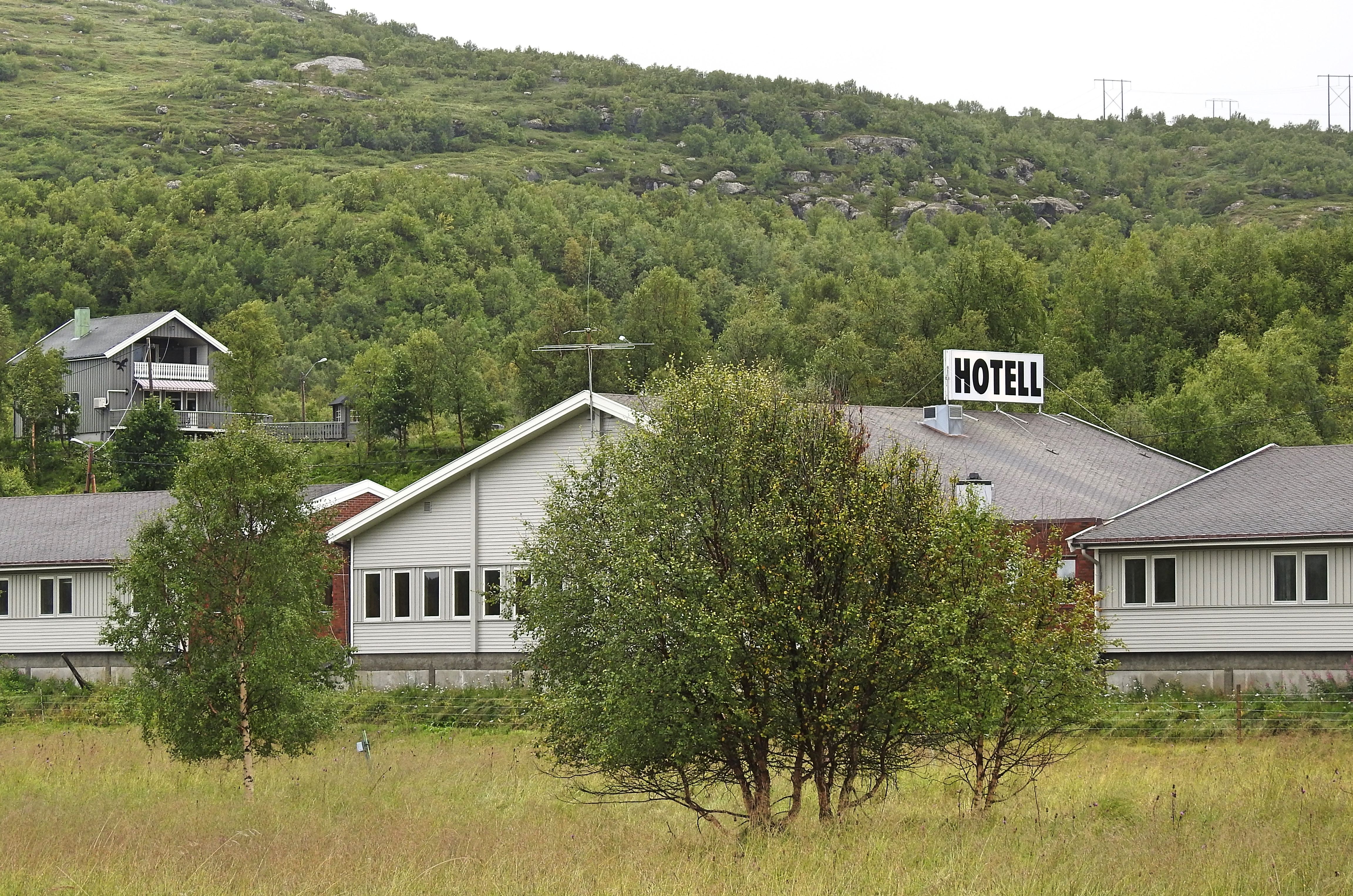 Hotel in Neiden